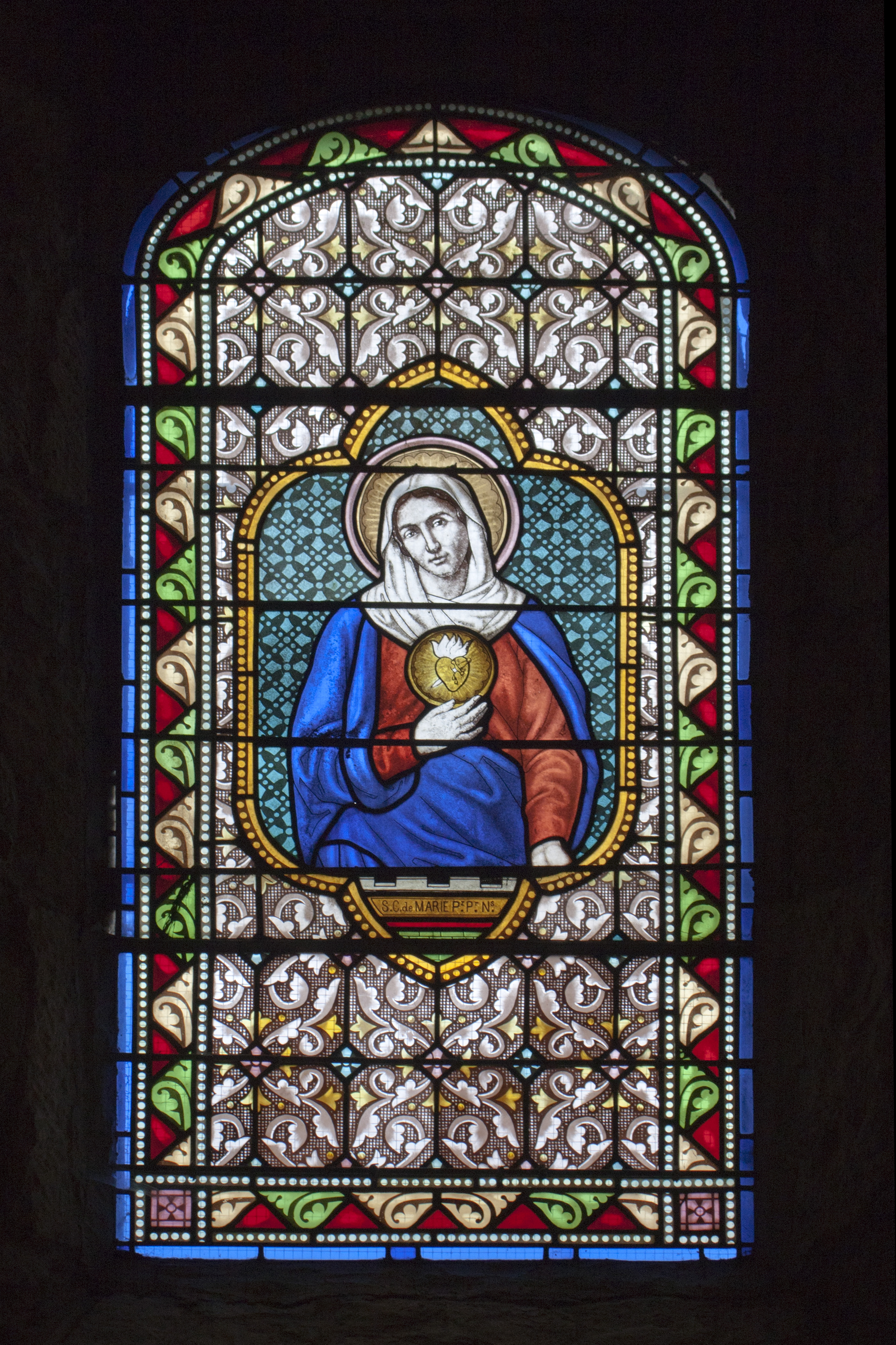 Saint Heart of Mary, P.F.U.